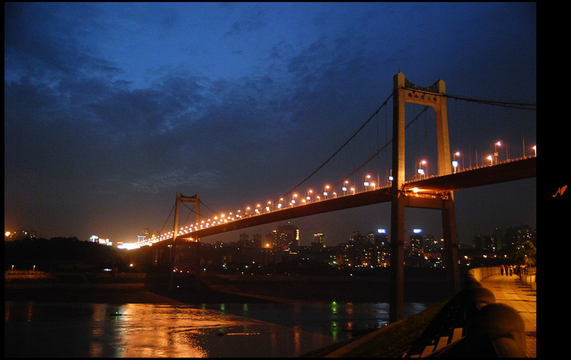 The E'gongyan Bridge over the Yangtze River in Chongqing municipality